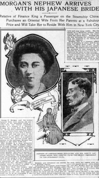 Morgan's nephew arrives with his japanese bride San Francisco Call, Volume 95, Number 77, 15 February 1904